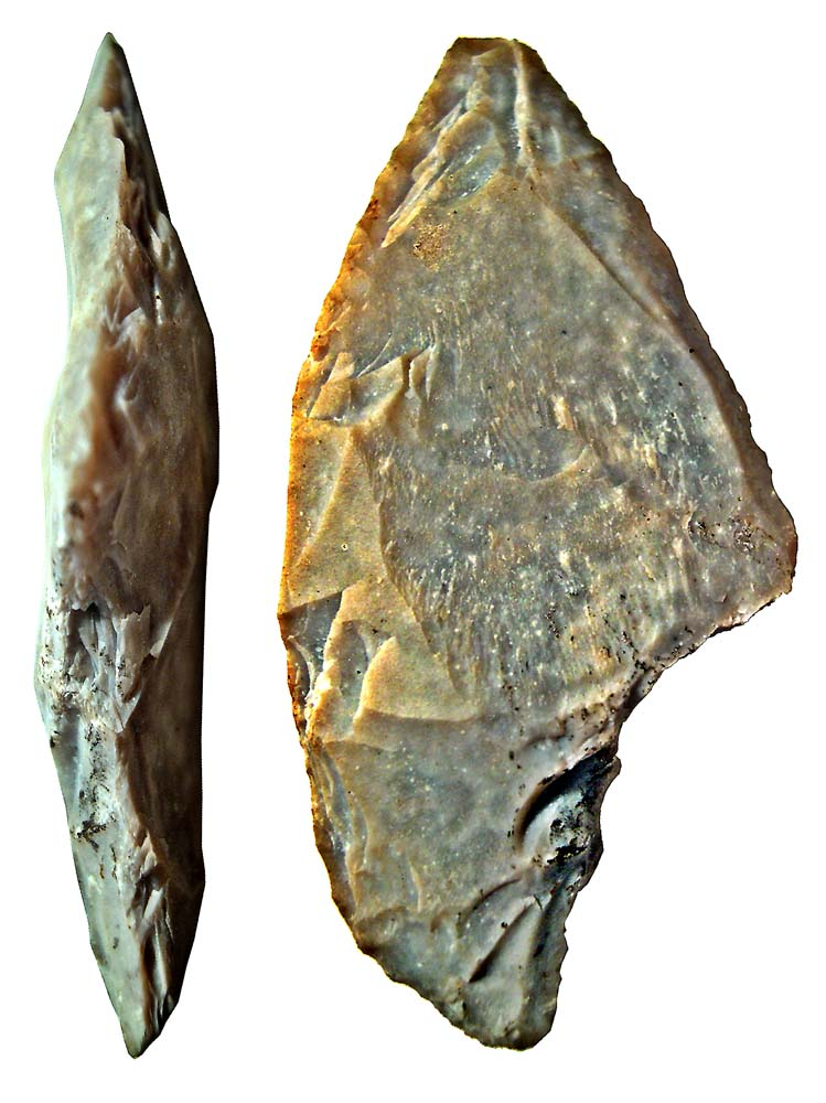 Solutrean side notched point